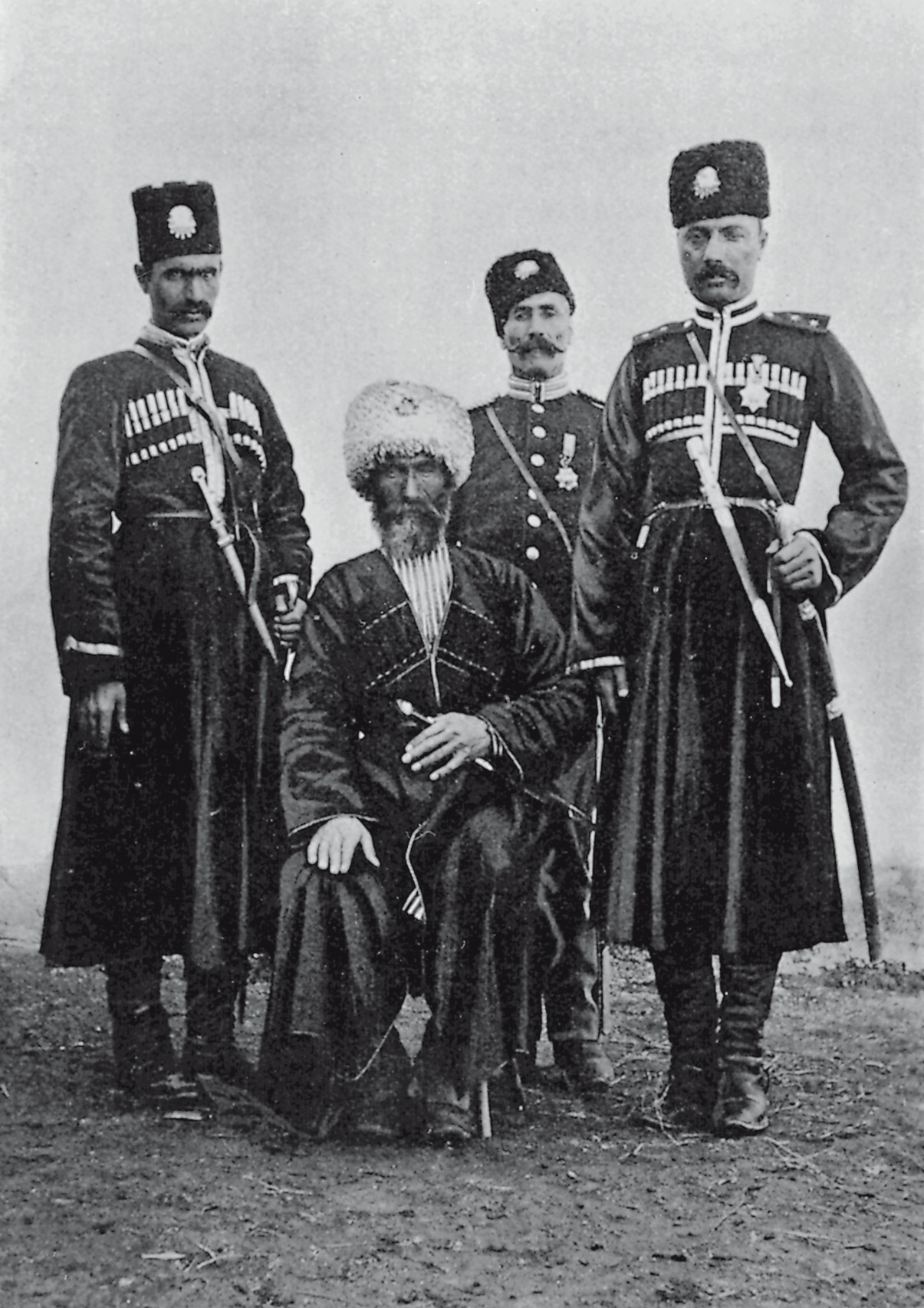 This file is a reproduction from an image in the book "Armenia: Travels and Studies, Vol. 1" authored by Harry Finnis Blosse Lynch, London 1901. The image's title is "Group of Kurd Hamidiye cavalry". It has been reprinted in the book "Rebellenland" by Christopher de Bellaigue, Munich 2008 (Verlag C.H.Beck).